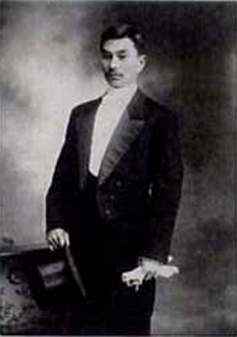 Taichi Nakayama, 1903